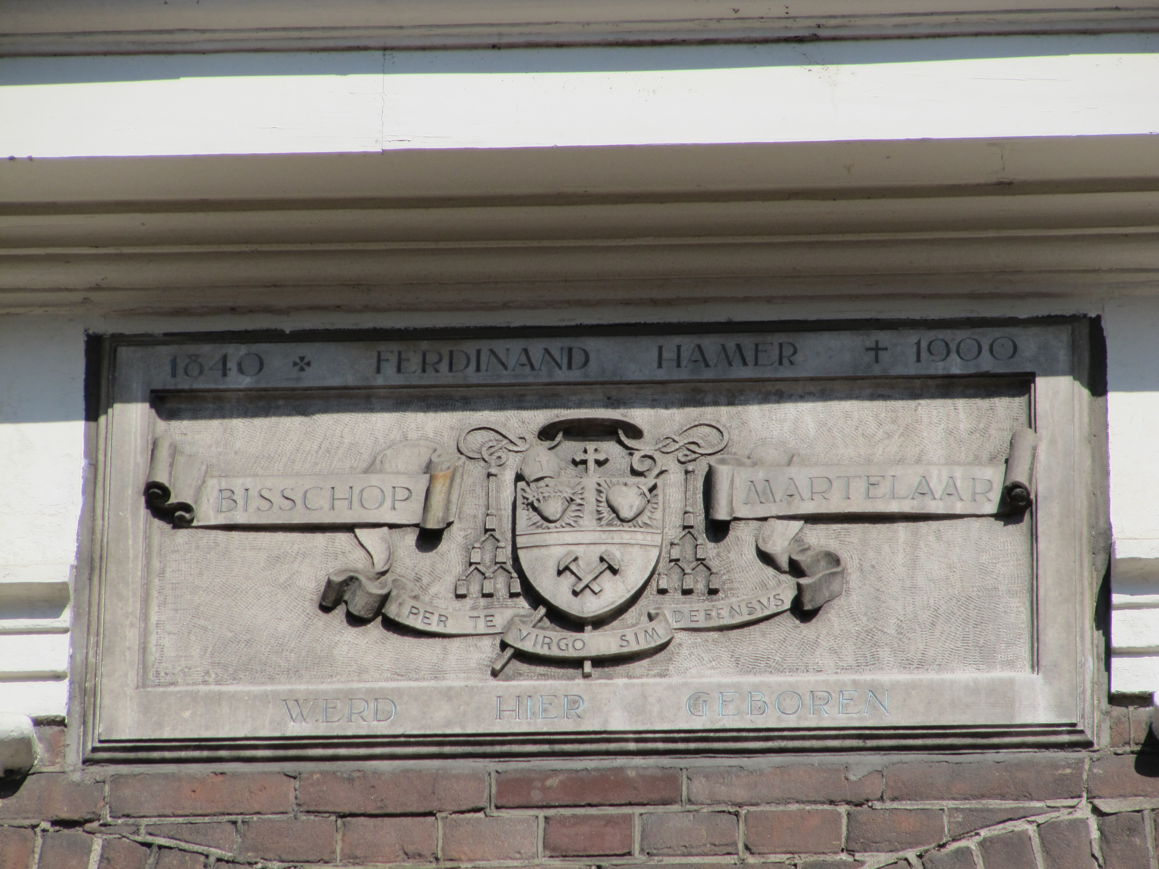 Commemorative plaque by Bernard Fokkinga at the birth house of bishop Ferdinand Hamer at the Molenstraat 122 in Nijmegen, The Netherlands